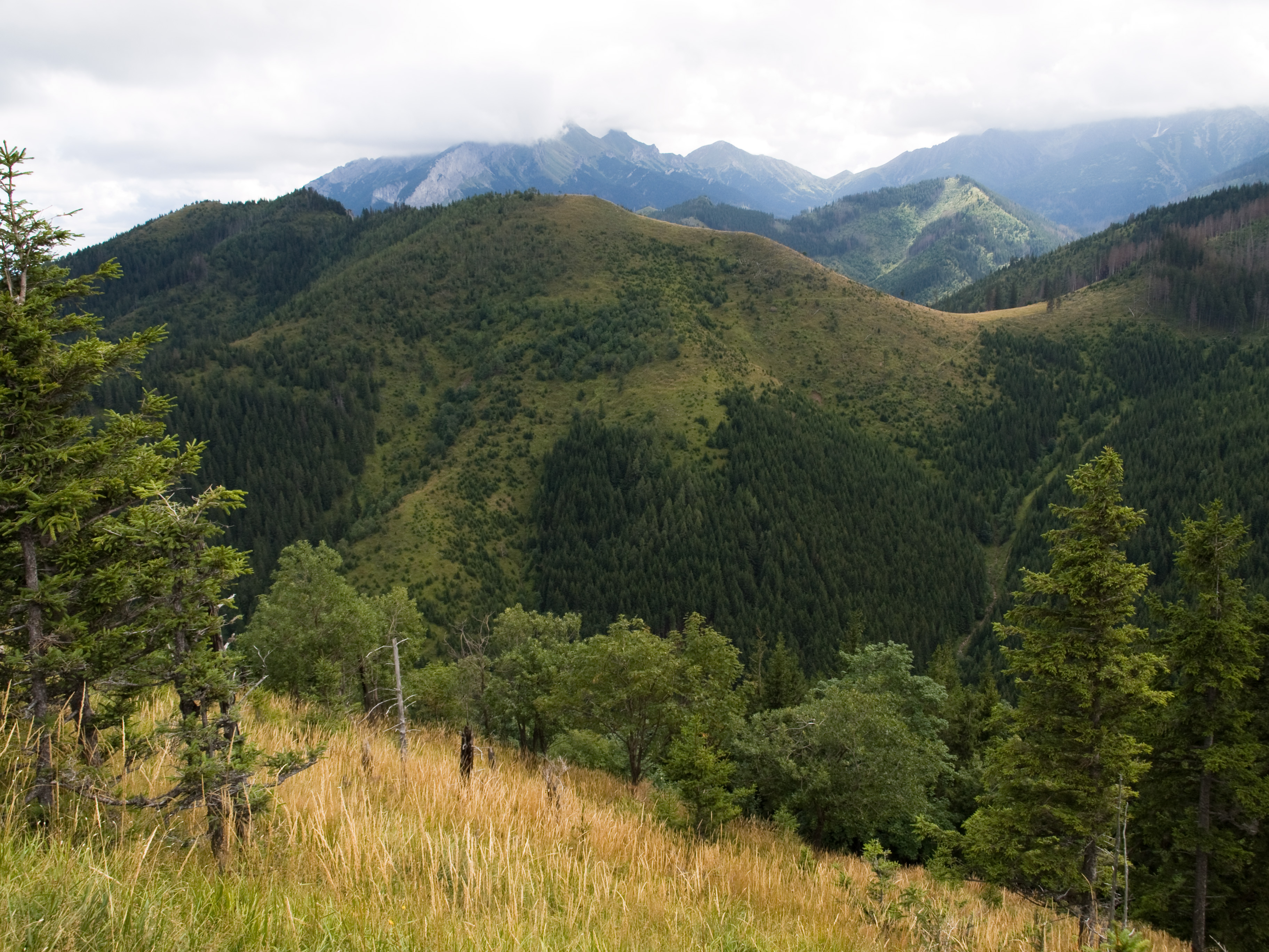 Skalka, Starý salaš and Červená dolina, above Starý salaš – Veľký Baboš, in the background Belianske Tatry